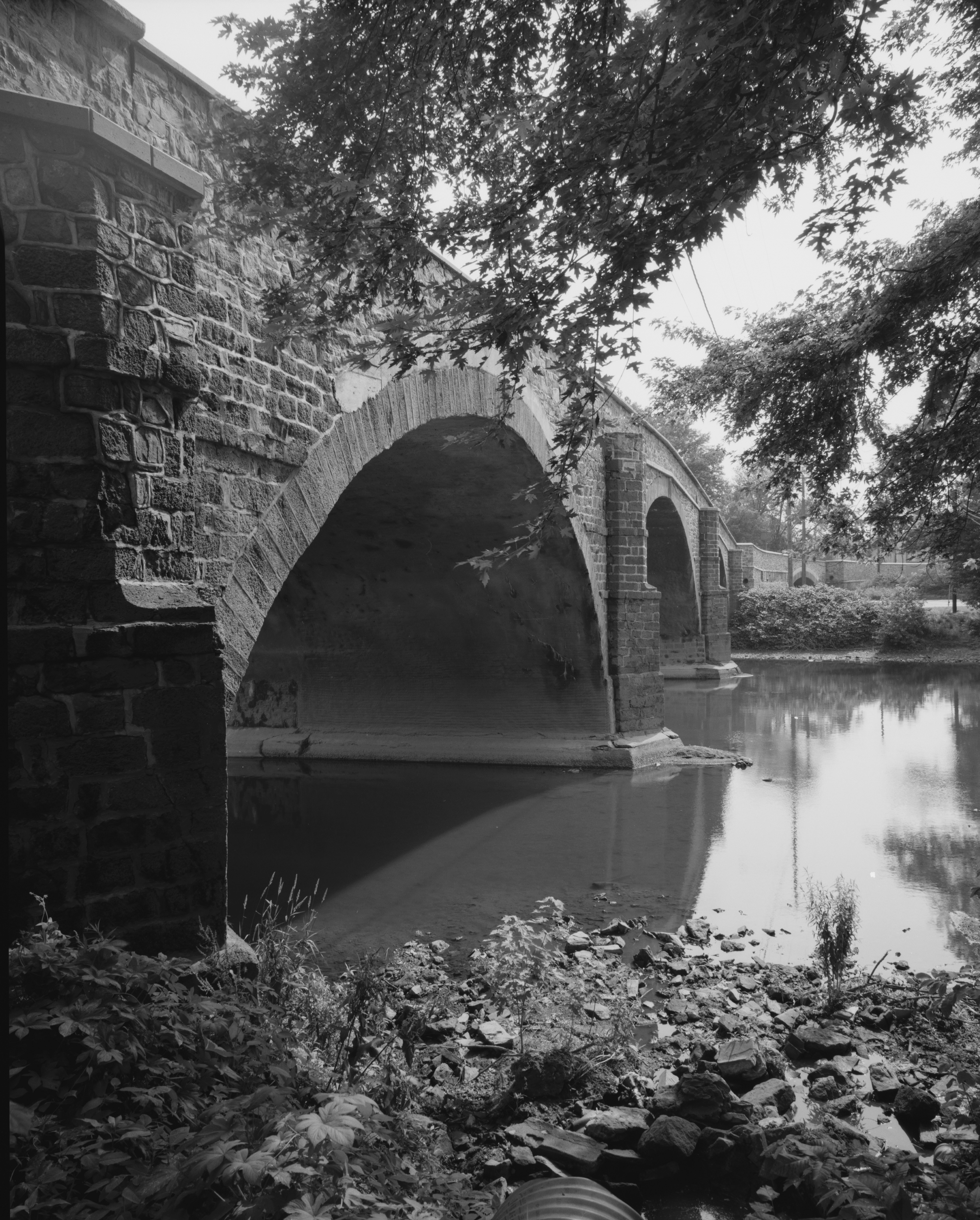 View of the south side of Perkiomen Bridge on the NRHP in Montgomery County, Pennsylvania. Built 1799, widened 1923